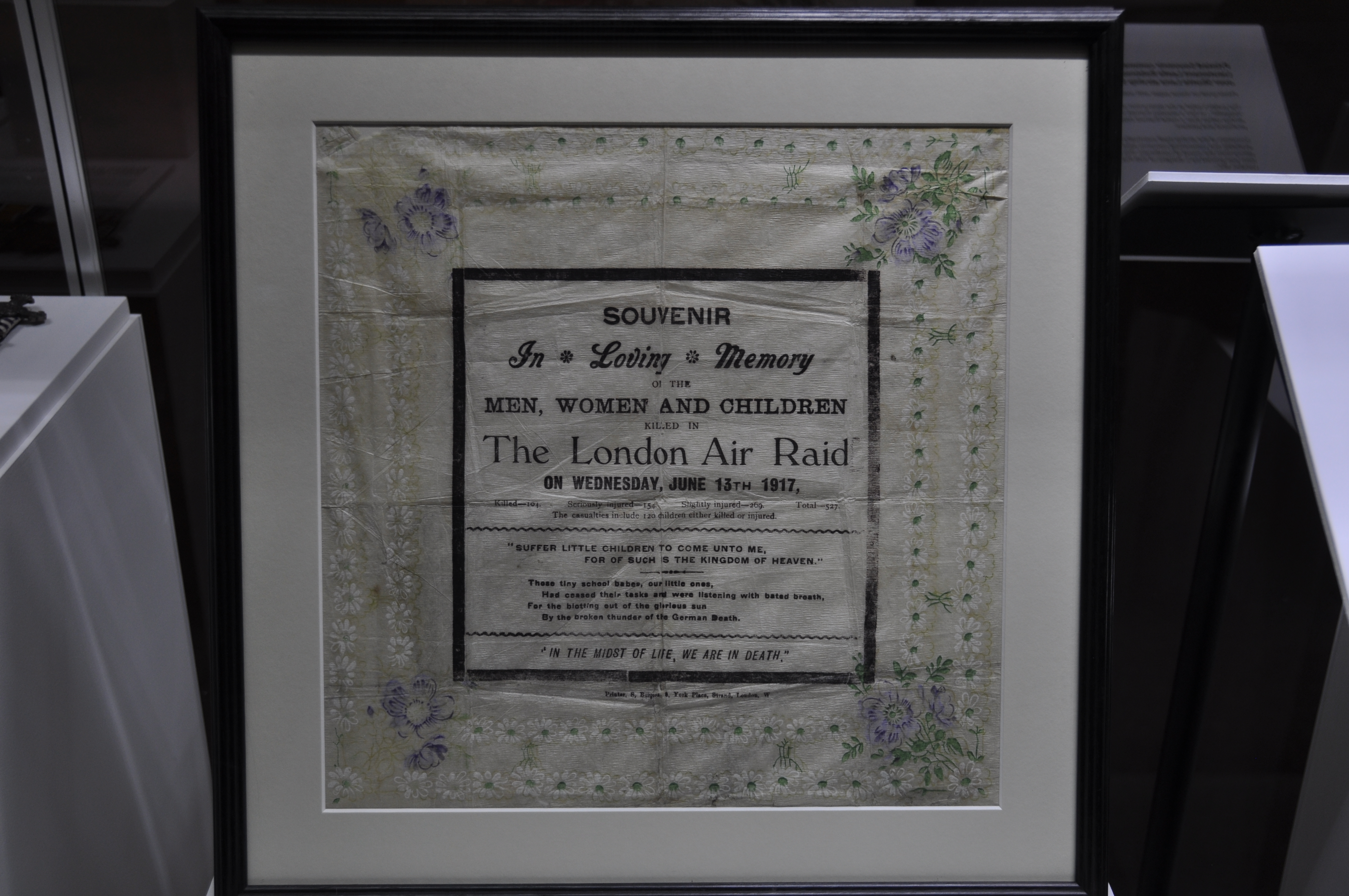 Pictures from RAF Museum, Hendon Souvenir of a Zeppelin raid on London, 13 June 1917, on display at RAF Museum Hendon, London. Printed on tissue paper, with watercolour design, this souvenir commemorates an attack by German Gotha bombers on the East End of London Text: Souvenir In Loving Memory of the Men Women and Children killed in the London Air Raid on Wednesday ,June 13th, 1917 Killed - 104. Seriously injured - 154. Slightly injured - 269. Total-527. The casualties include 120 children either killed or injured -- "Suffer little children to come unto me, for of such is the Kingdom of Heaven" -- These tiny school babes, our little ones, Had ceased their tasks and were listening with bated breath, For the blotting out of the glorious sun Bby the broken thunder of the German Death -- In the midst of life, we are death Printer S Burgess, 8 York Place, Strand, London W